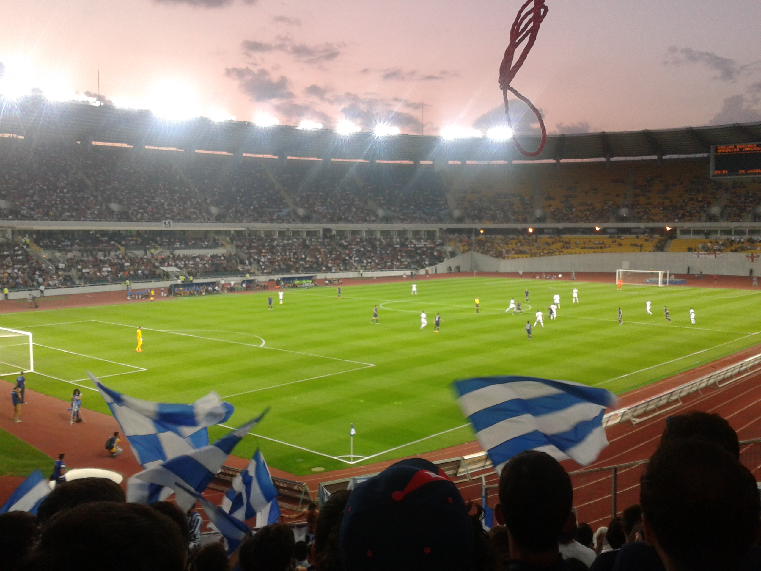 Boris Paichadze Dinamo Arena in Tbilisi, Georgia